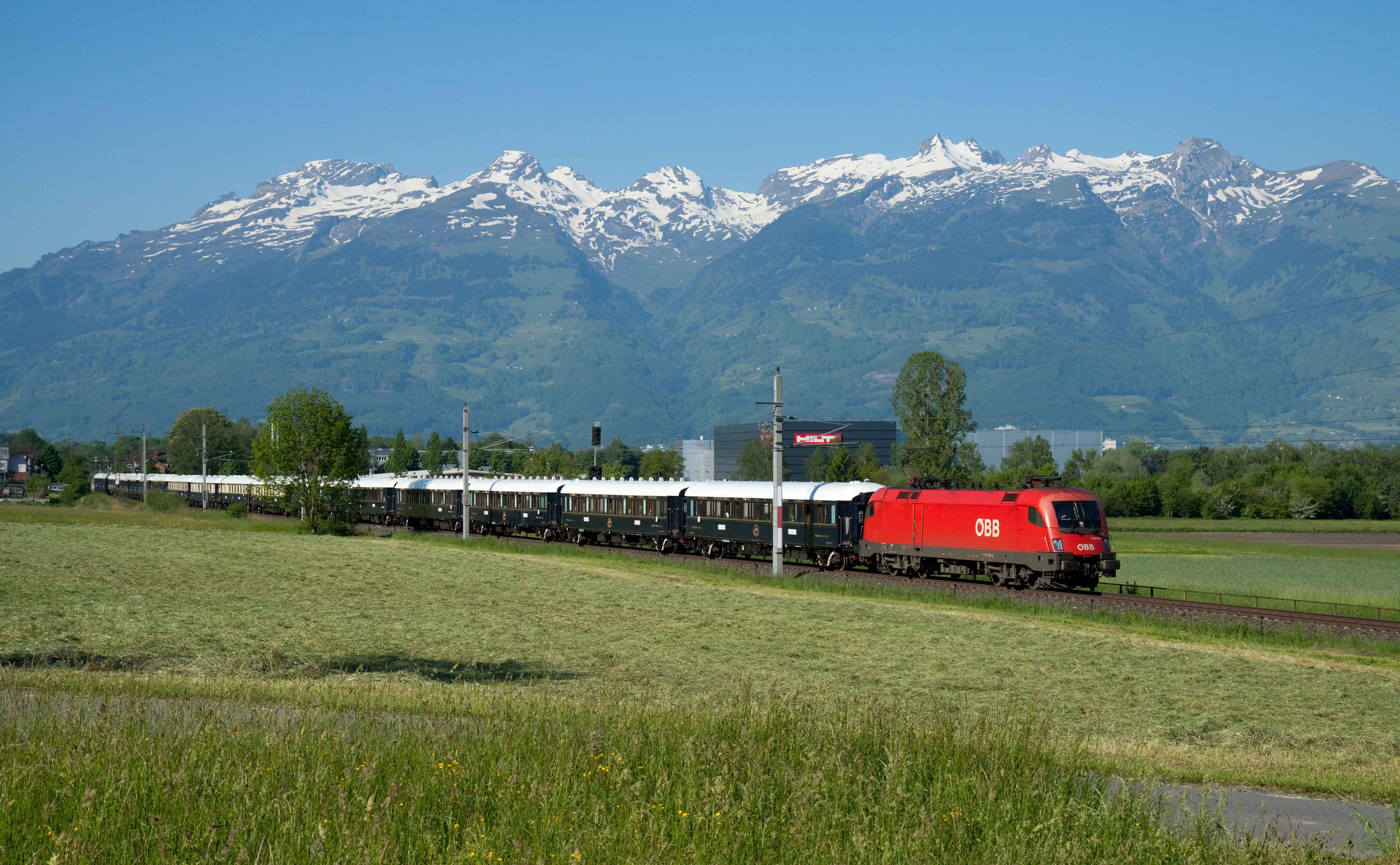 Venice-Simplon-Orient-Express hauled by an ÖBB Rh 1116 "Taurus" locomotive at Nendeln, Liechtenstein.